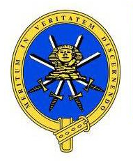 Logo of the Dutch Military Intelligence and Security Service MIVD